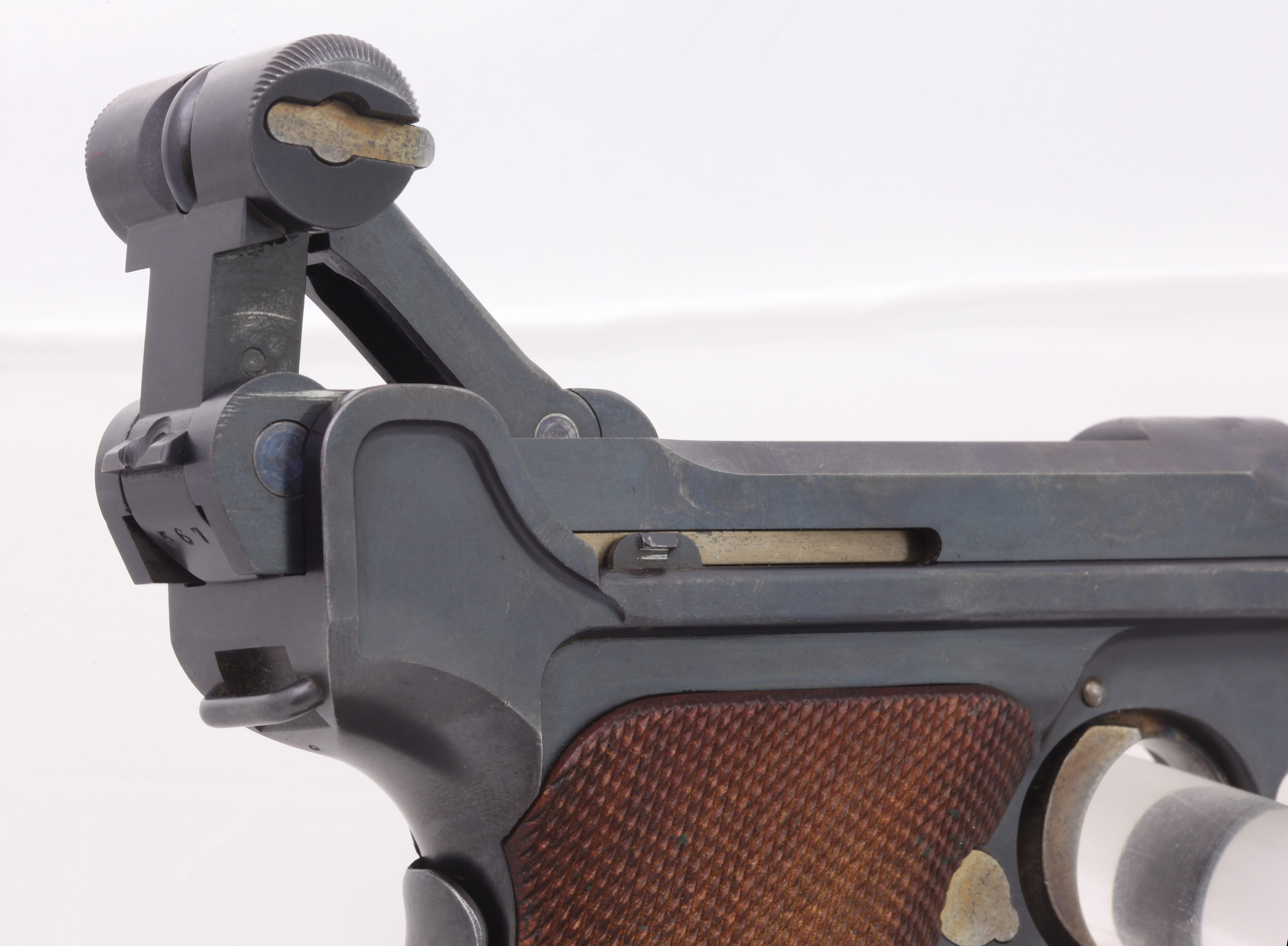 Detail of a Luger P08 pistol Collection Paul Regnier, Lausanne, Switzerland